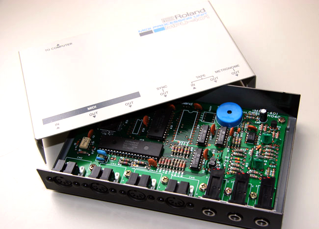 Photograph taken by submitter.